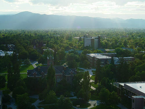 The University of Montana – Missoula campus